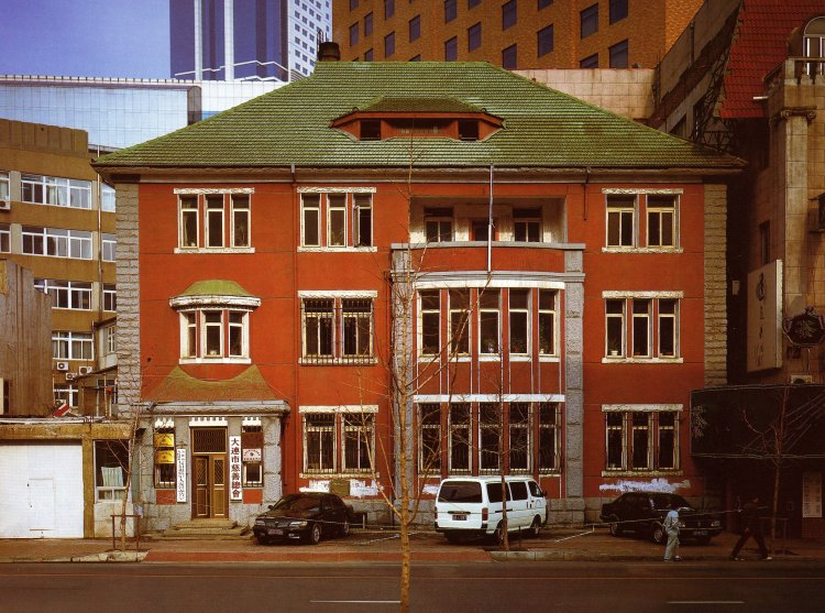 Former USSR Consulate office in Dairen City (now Dalian, PRC, Luxunlu St., 2). Served in 1925-early 1950s